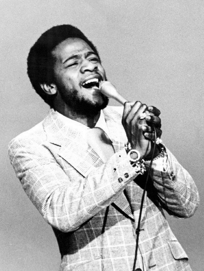 Photo of singer Al Green from an appearance on the Mike Douglas Show.